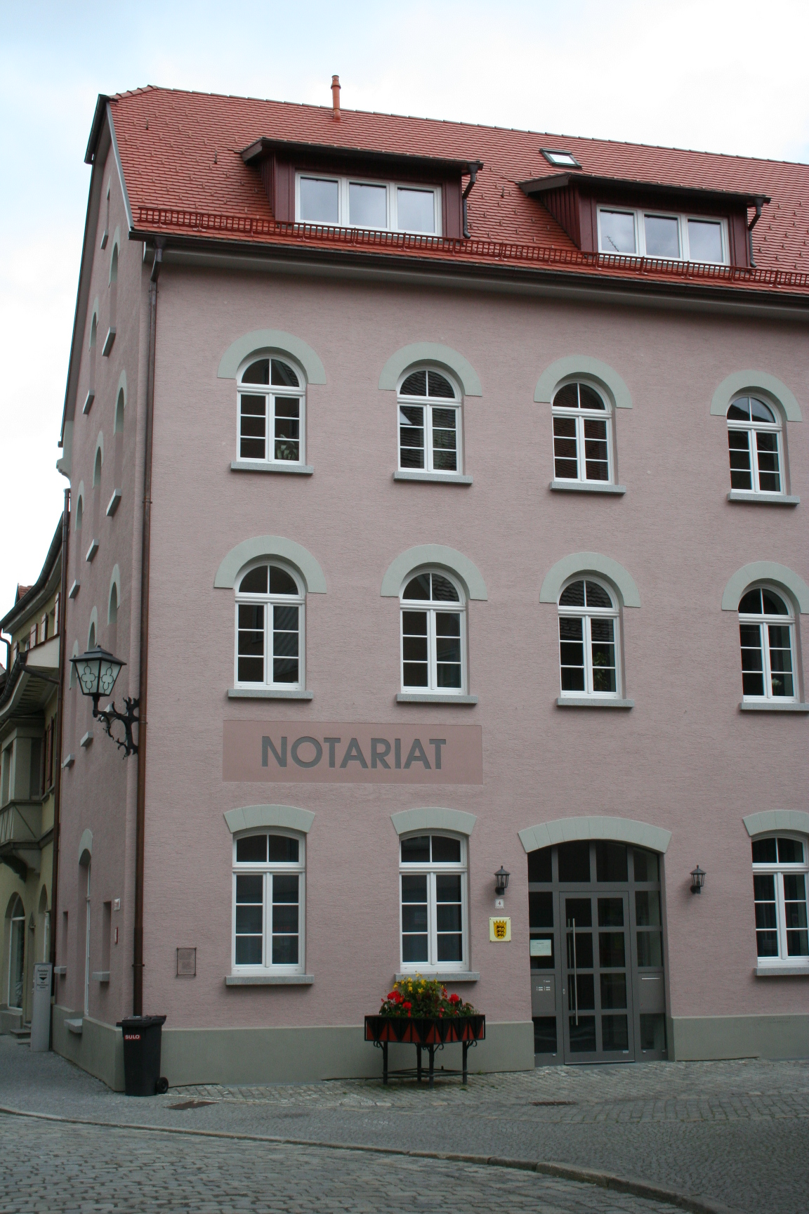 Notary office in Wangen im Allgäu.